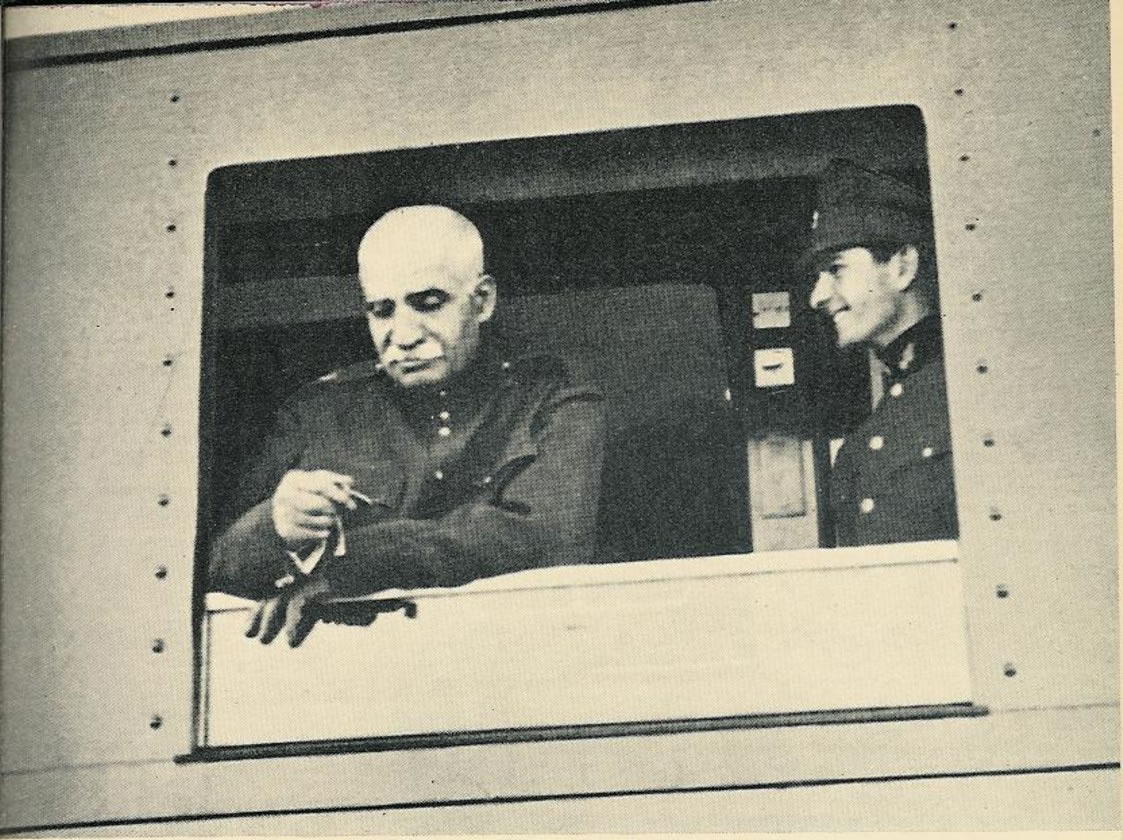 Rezah Shah and his son Mohammad Reza controlling arrival time of a train of the Trans-Iranian Railway